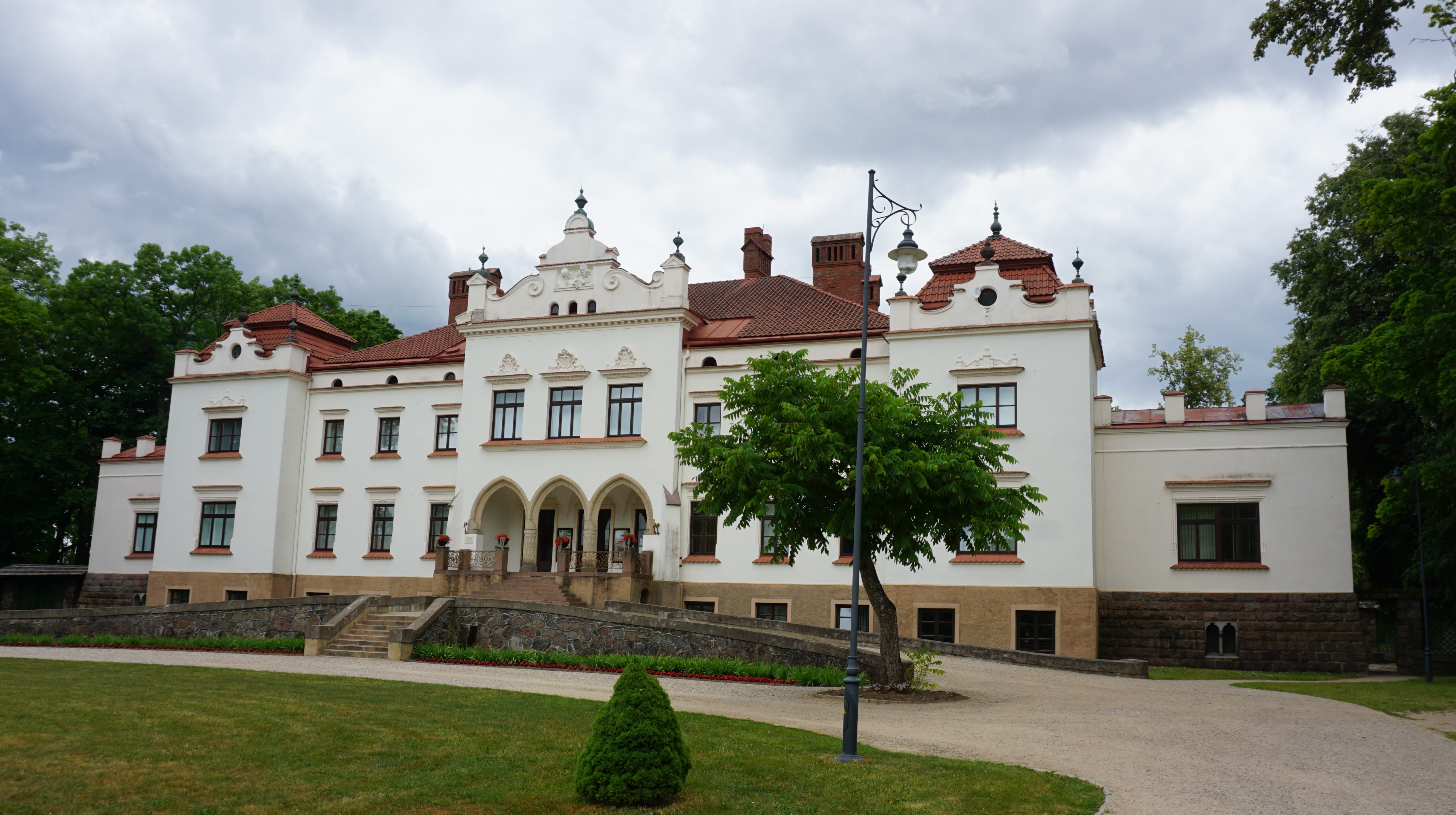 Rokiškis manor in Lithuania, 2018